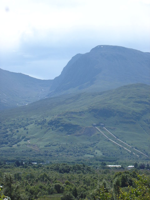 Pipelines supplying Aluminium works Fort William. Taken from Caledonian canal looking towards Ben Nevis. Pipeline is dominant feature in bottom right